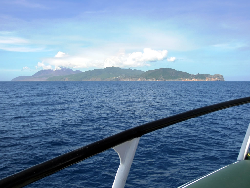 Approaching Montserrat, the Emerald Isle of the Caribbean, on the ferry from Antigua.